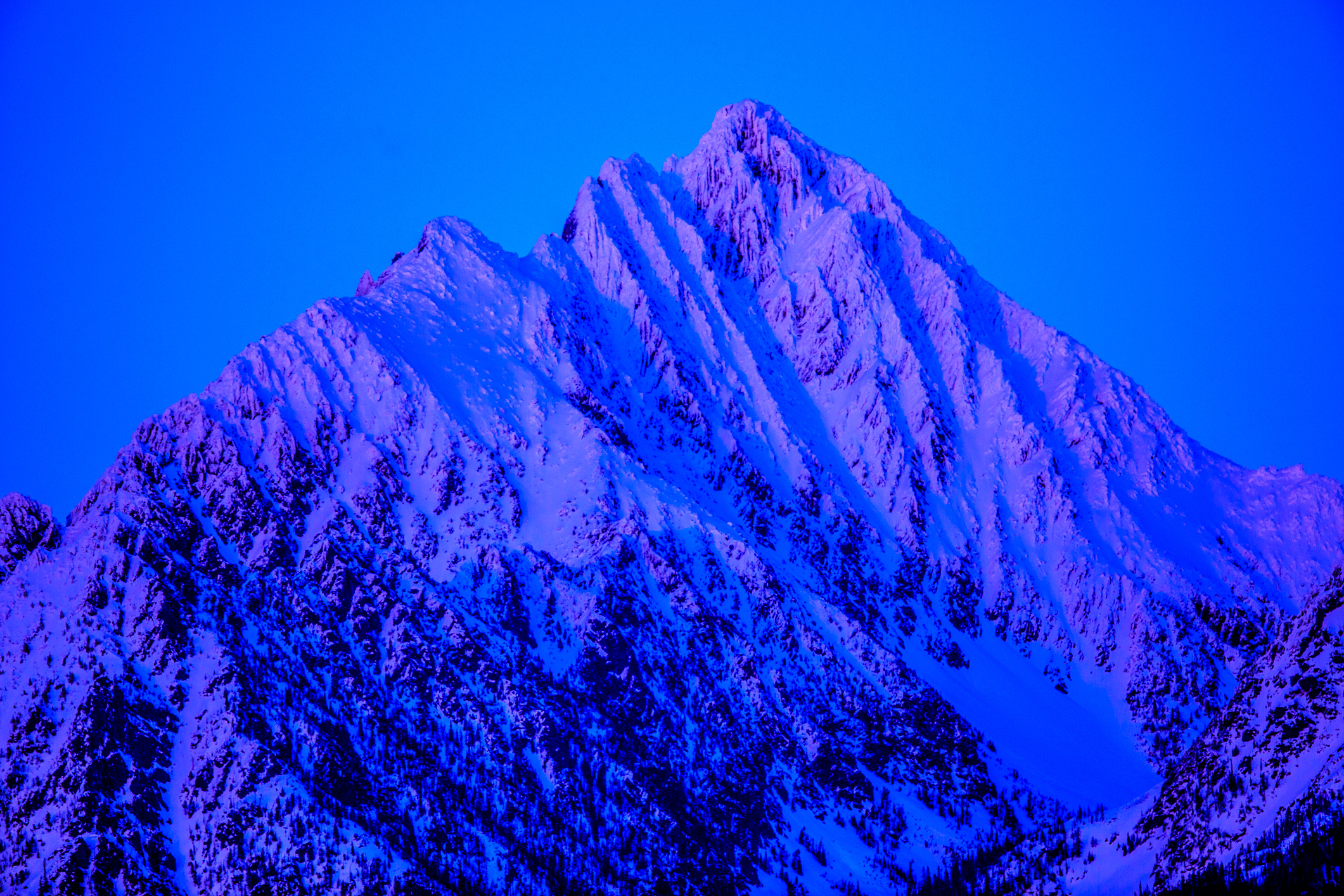 last pink alpenglow on S Rockies peaks near Wasa Lake...